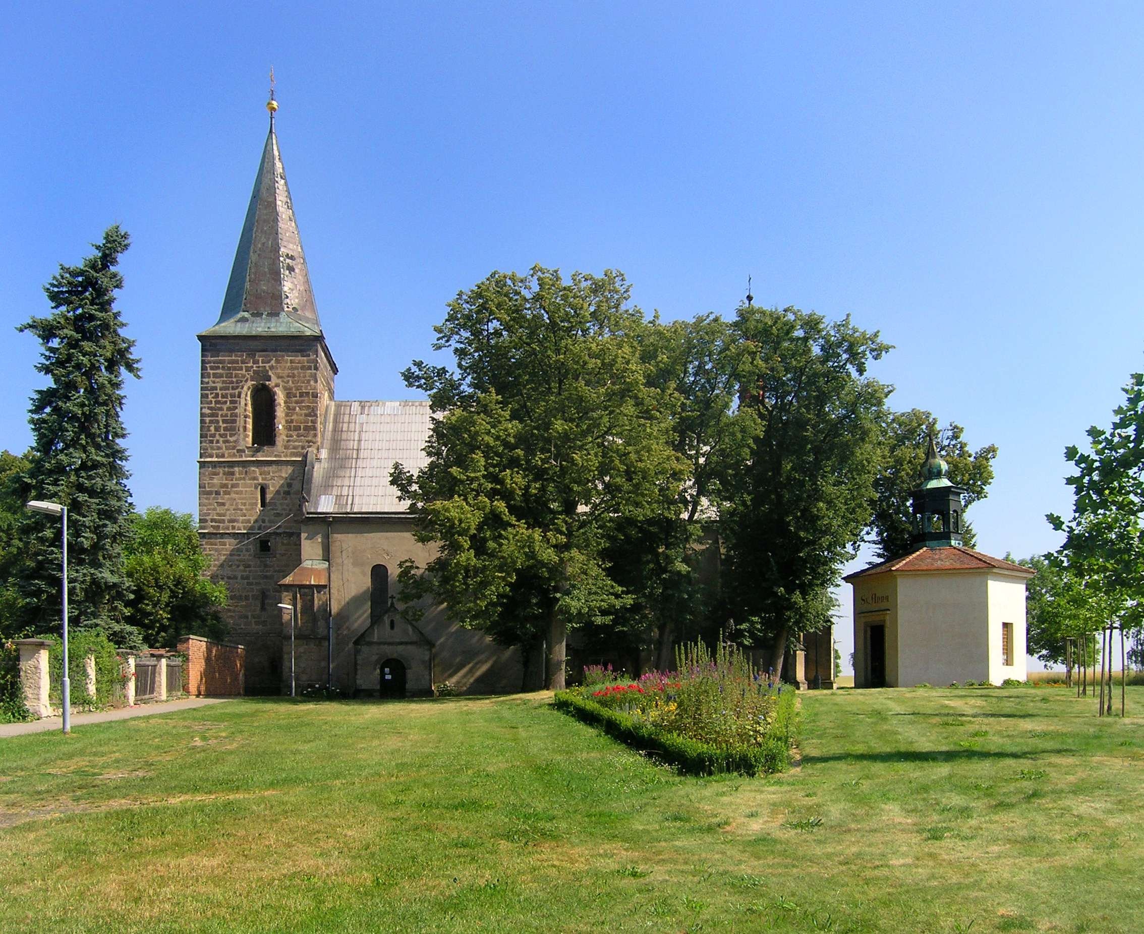 Church of the Assumption of the Virgin Mary in Charvatce, part of Martiněves, Czech Republic